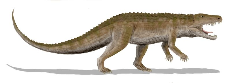 Ornithosuchus longidens, an archosaur from the Late Triassic of Scotland, pencil drawing